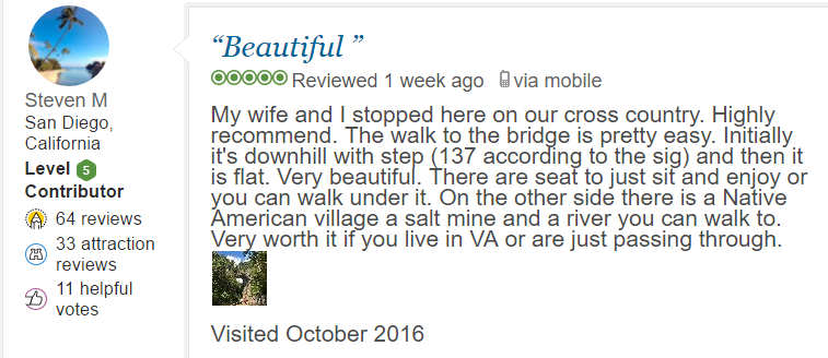 Uploaded by SA from a screen print. Here is the link to the Trip Advisor Reviews page for Natural Bridge State Park: Natural Bridge State Park